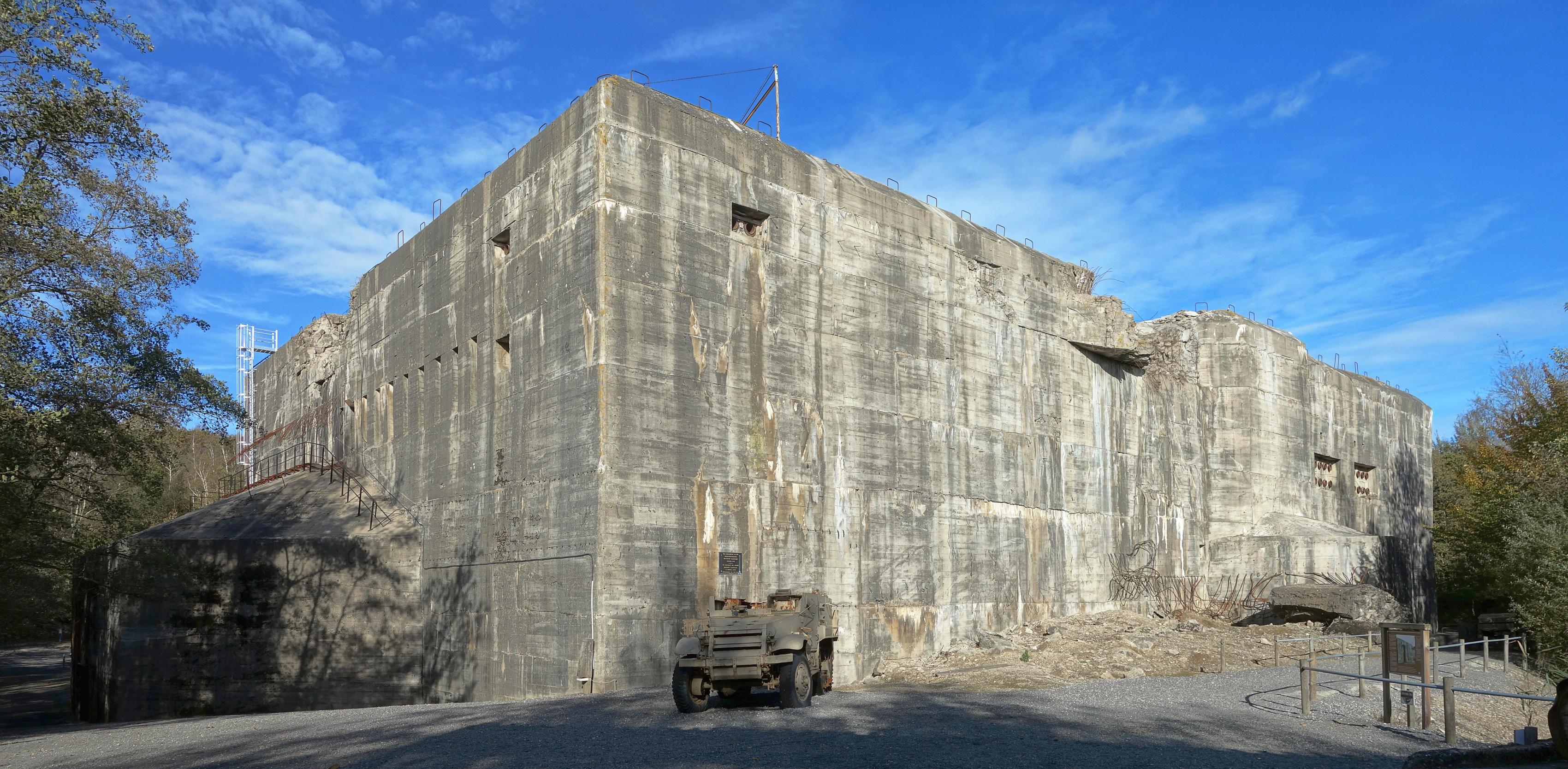 Southwest corner of the Blockhaus d'Éperlecques, France.